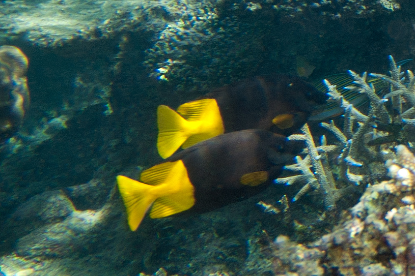 also called bicolor rabbitfish